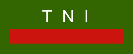 Second Private rank insignia that used on daily uniforms of Indonesian Army